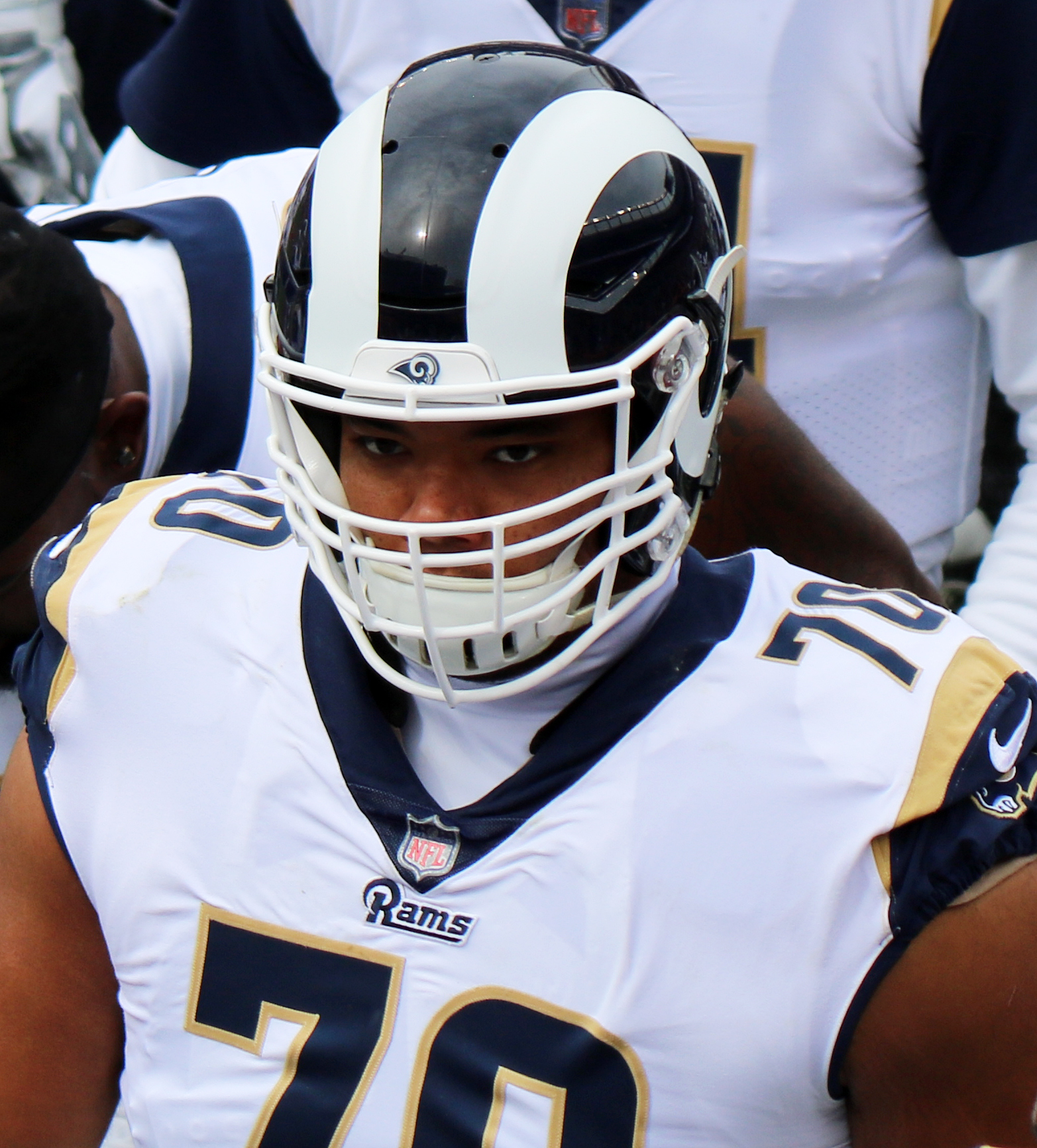 Joseph Noteboom, a National Football League player.